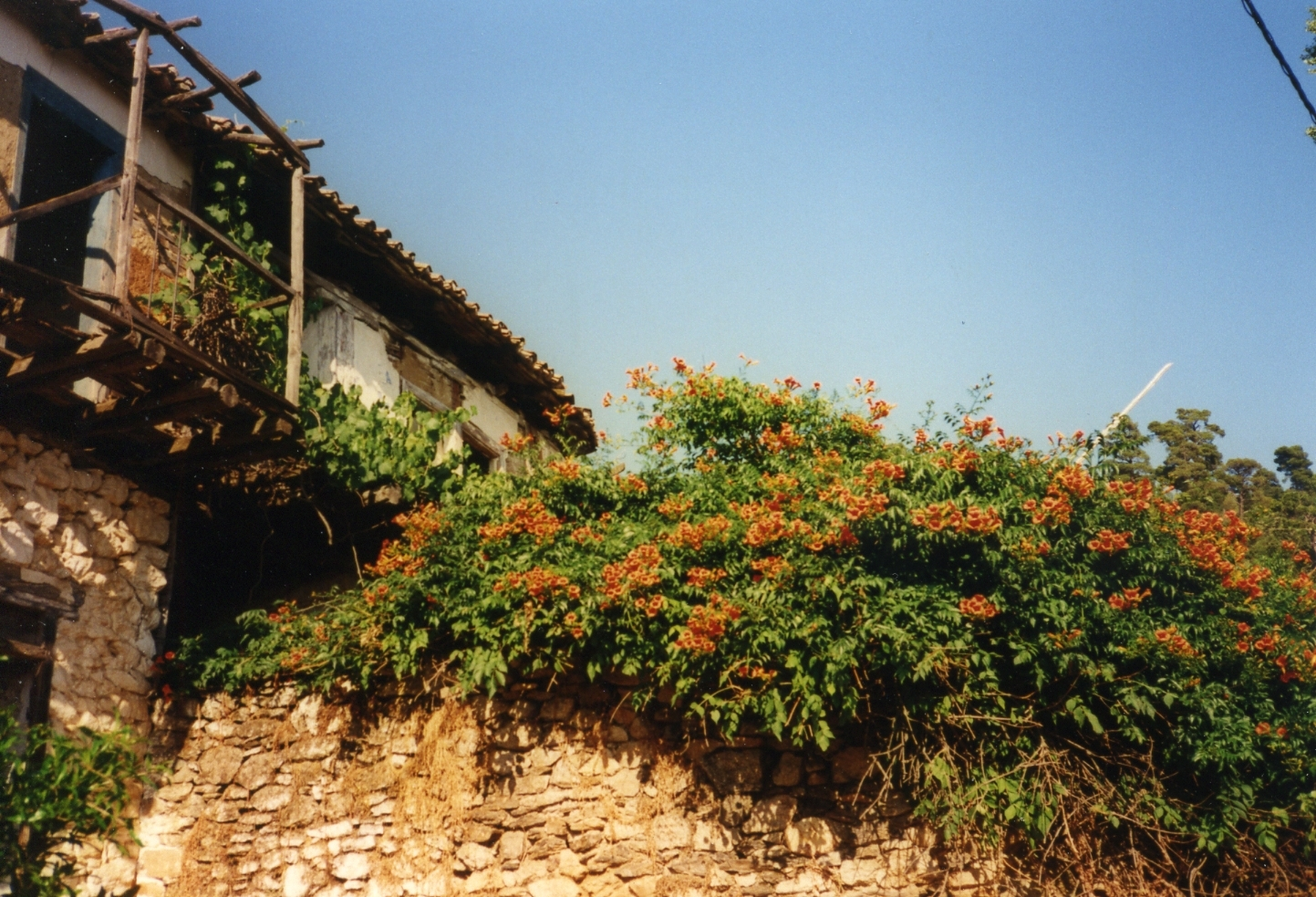 Abandoned traditional Greek houses in the village of Parthenonas near Neos Marmaras, Sithonia, Chalkidiki, Greece.